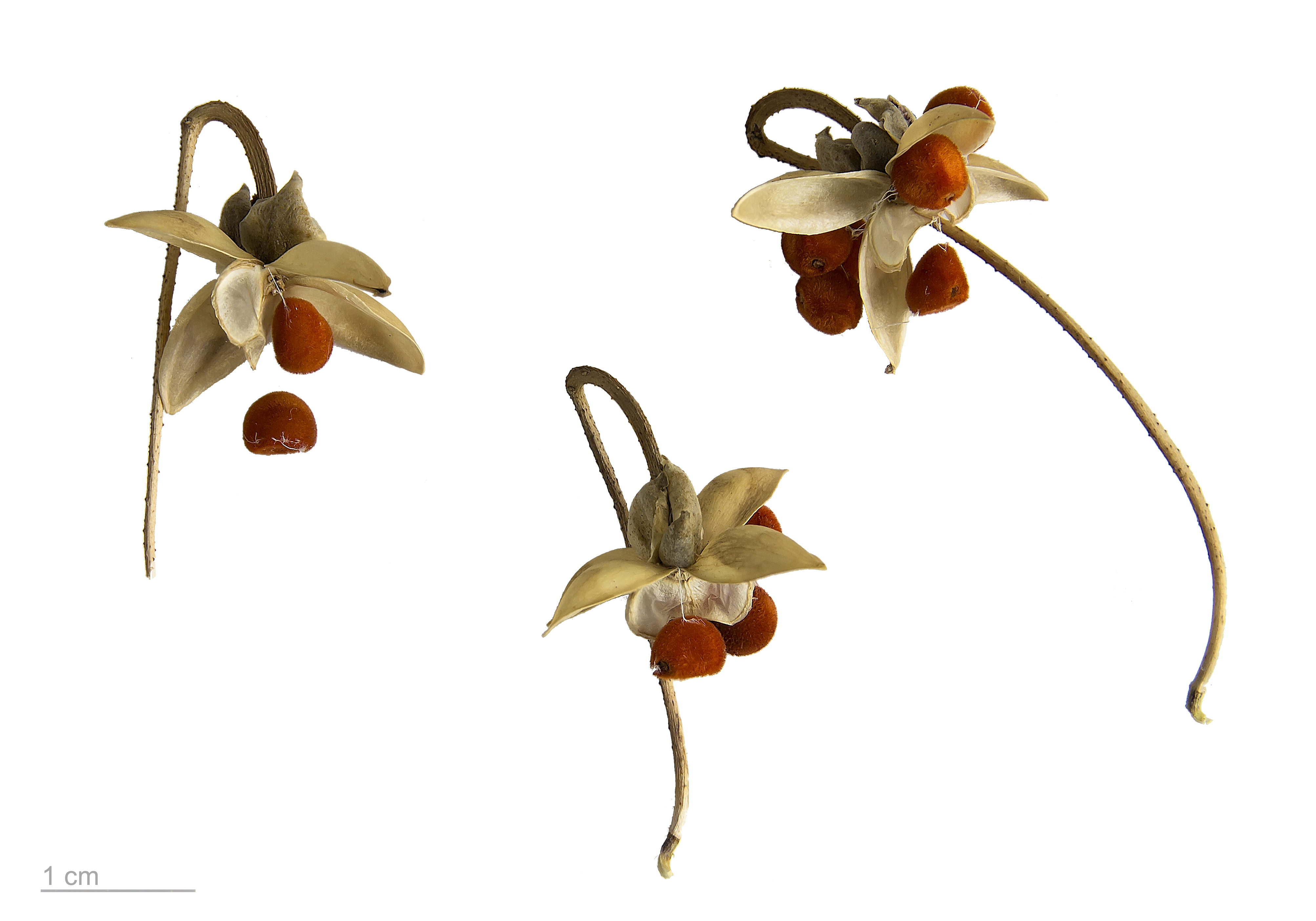 Ipomoea transvaalensis, , seeds